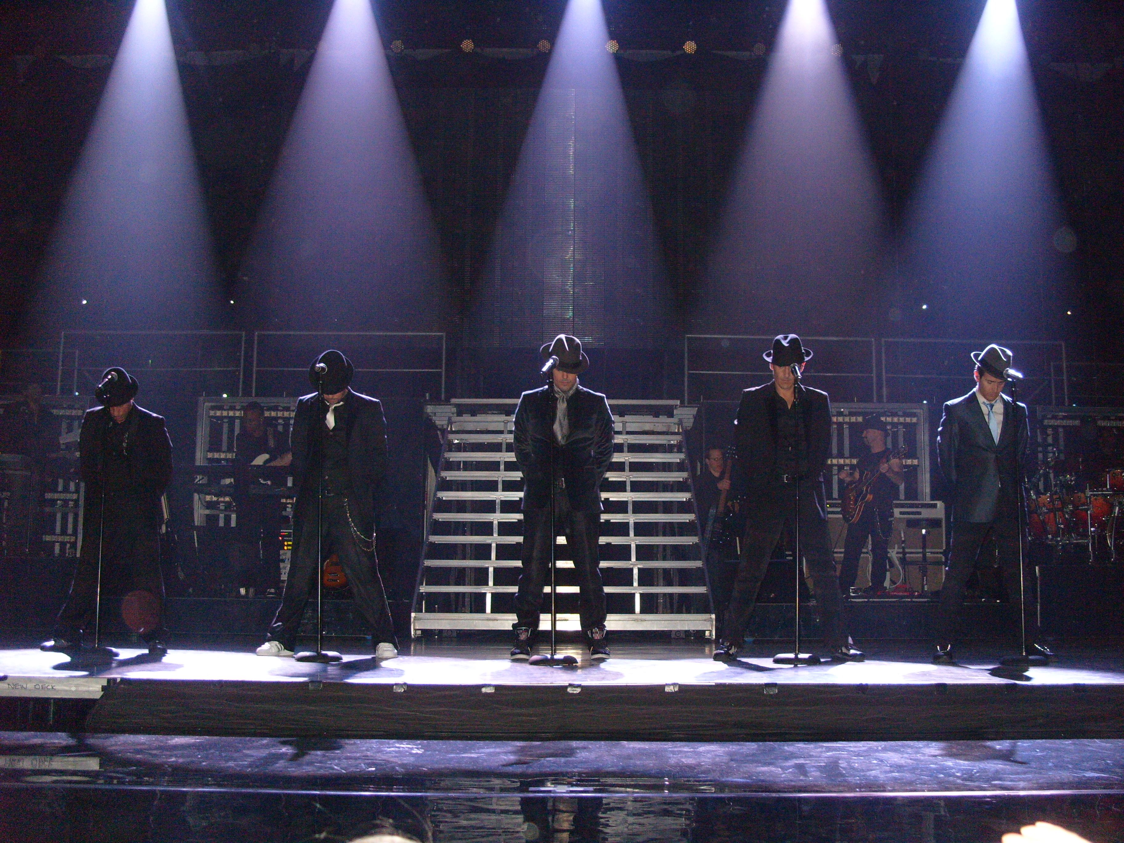 New Kids on the Block Concert January 2009